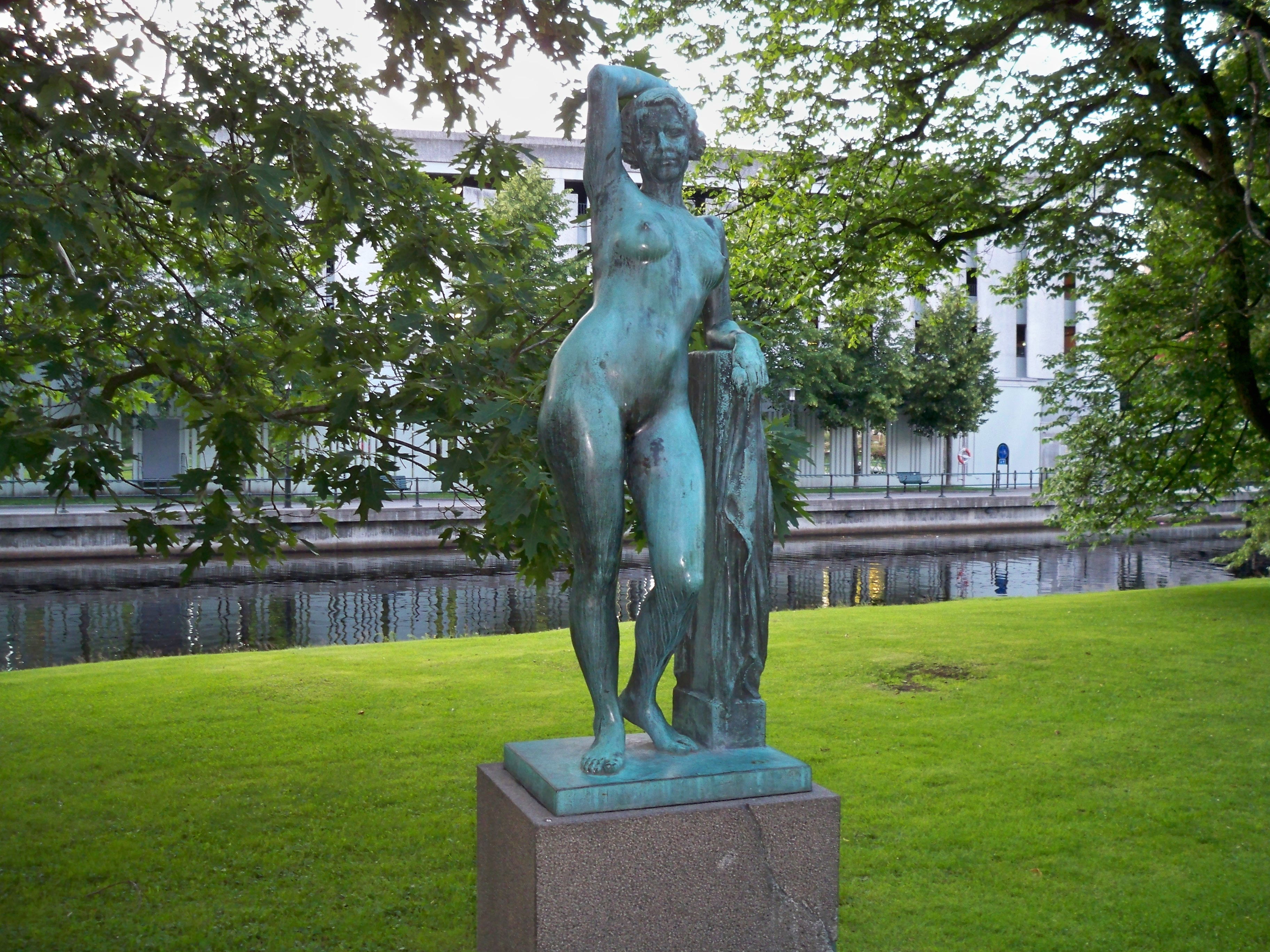 Galatea in Stadsparken (City park) of Borås, Sweden. She was sculptured by the Swedish sculptor Nils Möllerberg (1892-1954) in 1934 and is also to be found in Pildammsparken of Malmö, Sweden.